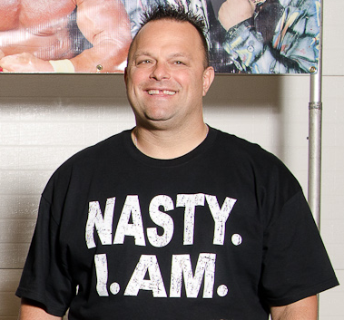 Jerry Sags in Allentown at the Hulk Hogan & friends event.